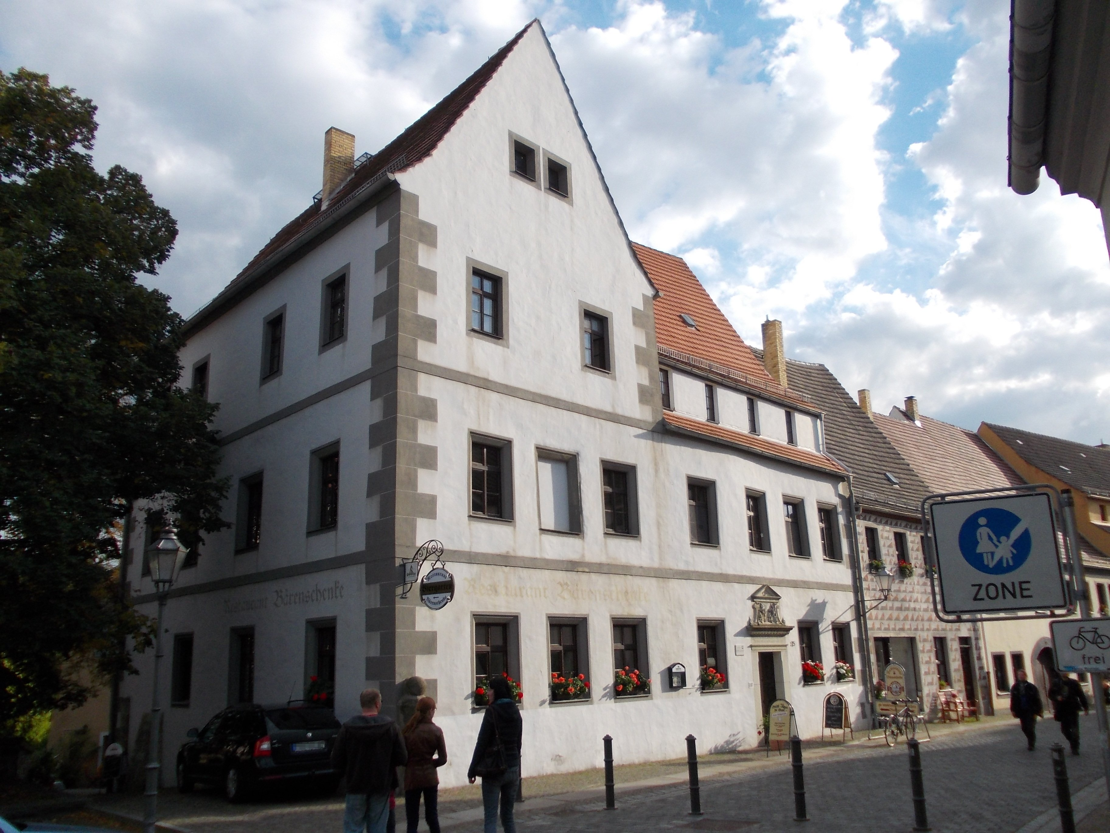 Kentmann's house with The Bear Tavern in Torgau (Nordsachsen district, Saxony)